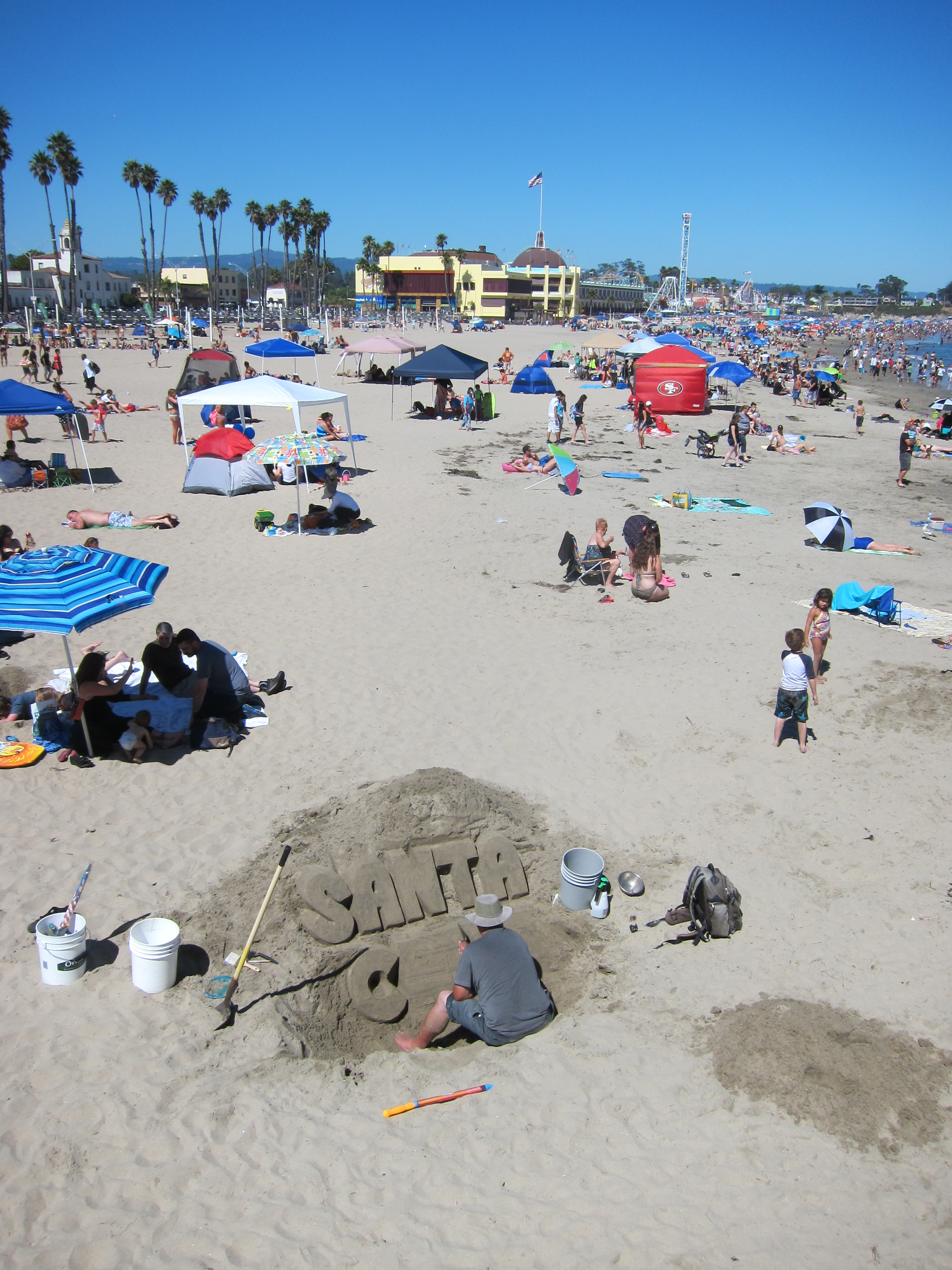 The Santa Cruz Main Beach and Bordwalk, with a man carving "SANTA C..." in the sand.